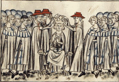 Henry VII, Holy Roman Emperor